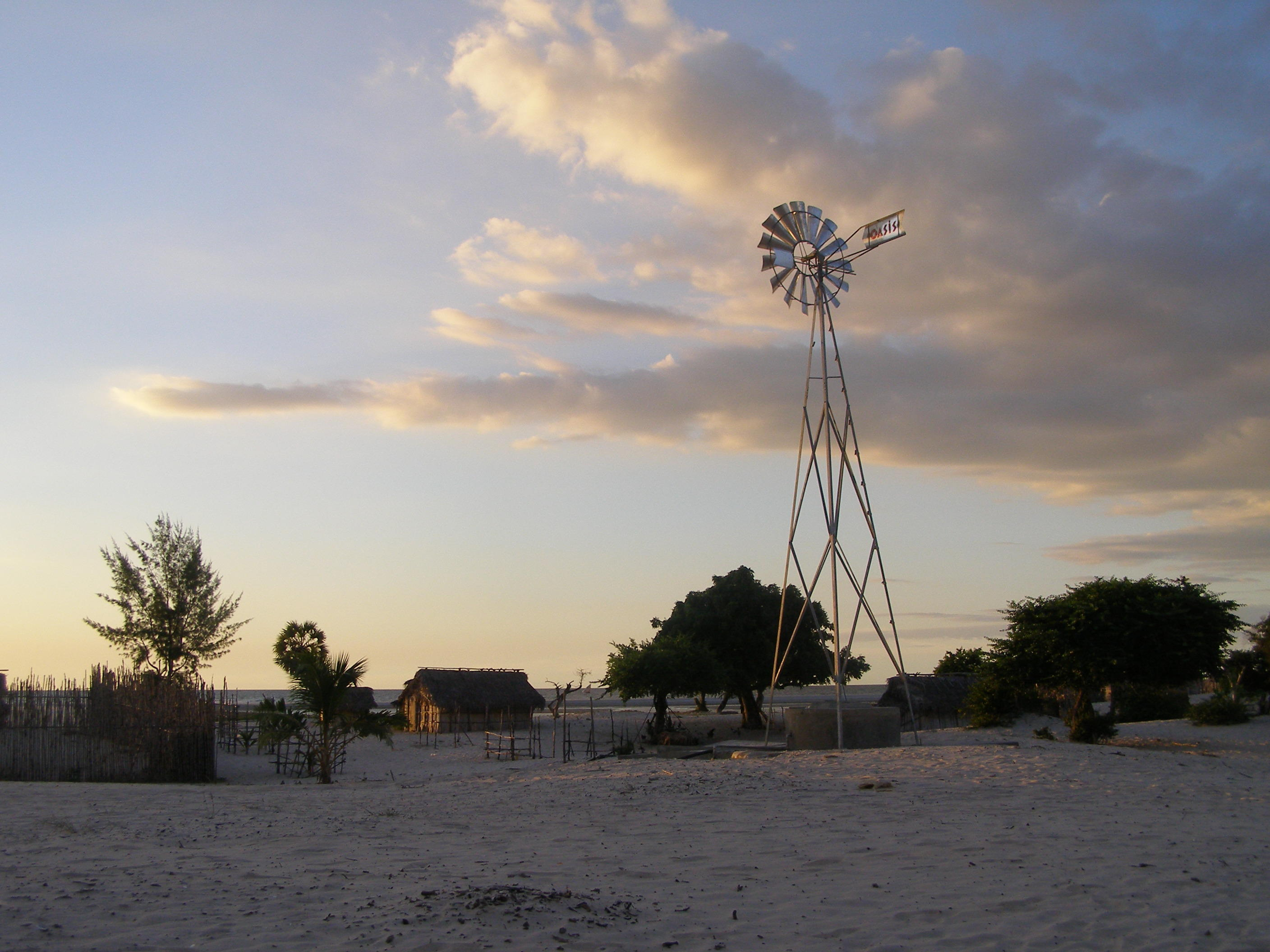 I took this photo in western Madagascar in spring 2006 and release all rights.